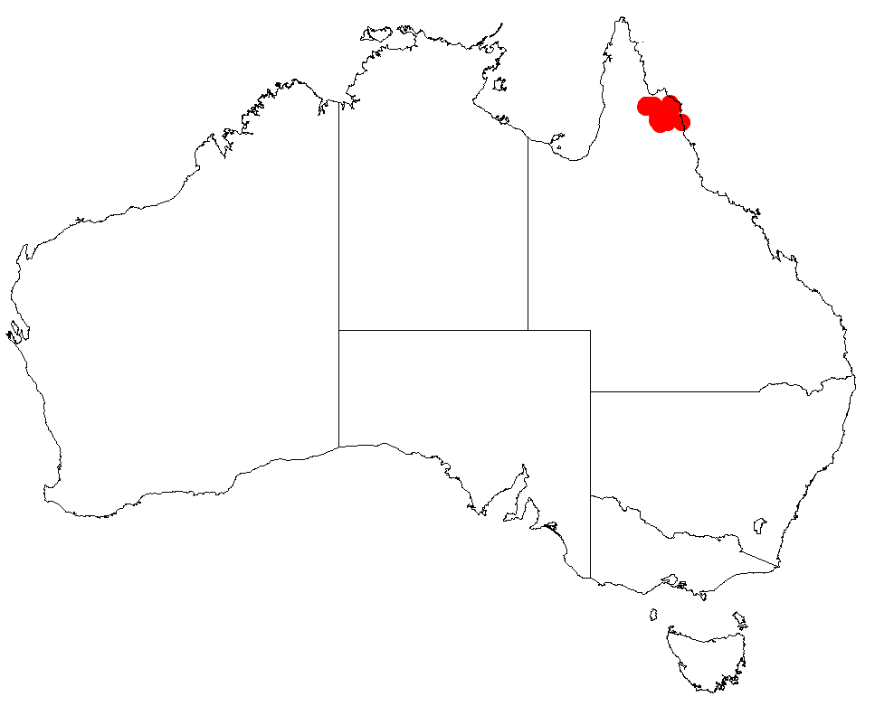 Homoranthus tropicus Occurrence data from AVH downloaded 28 September 2018